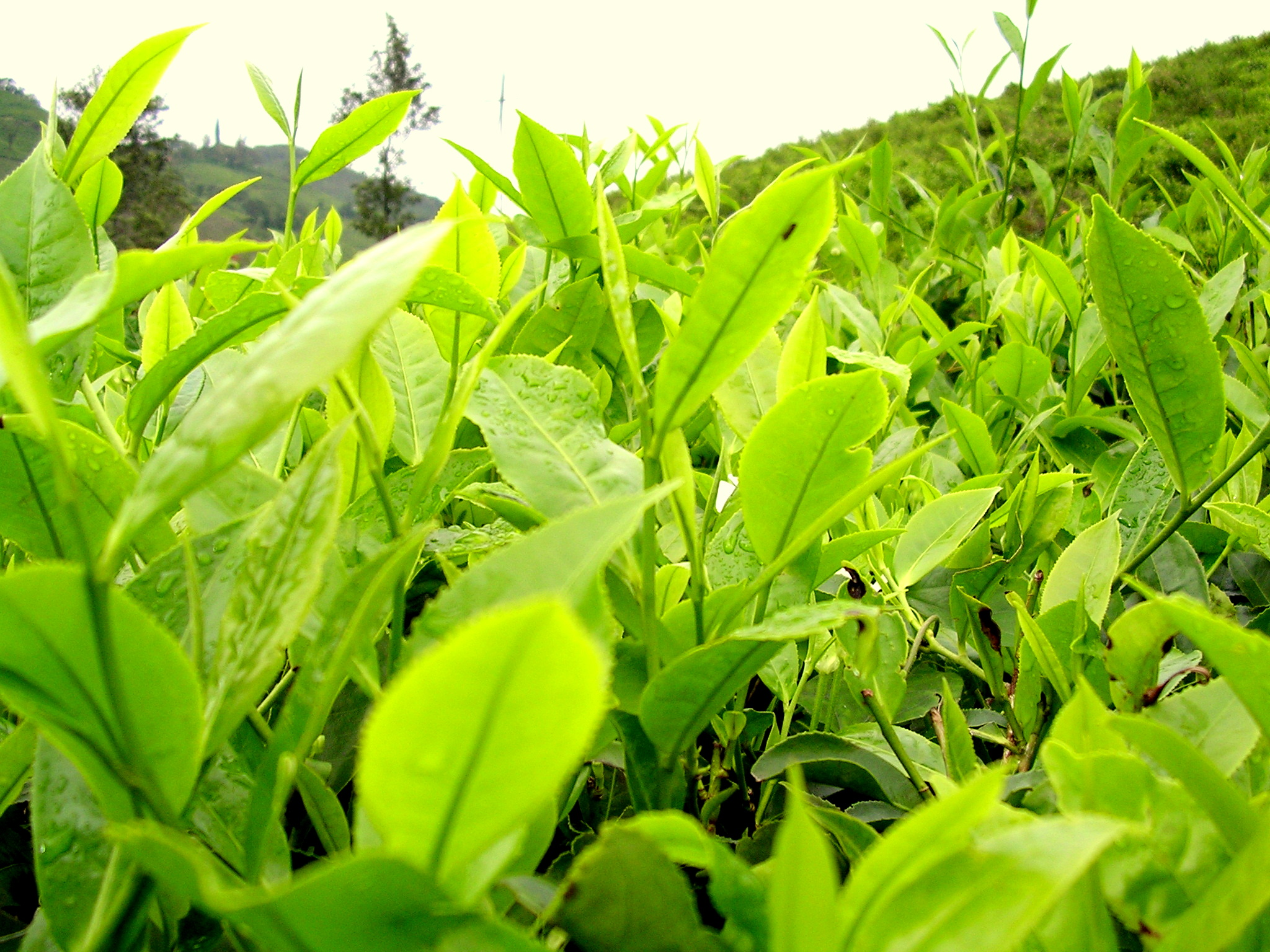 Tea Plant